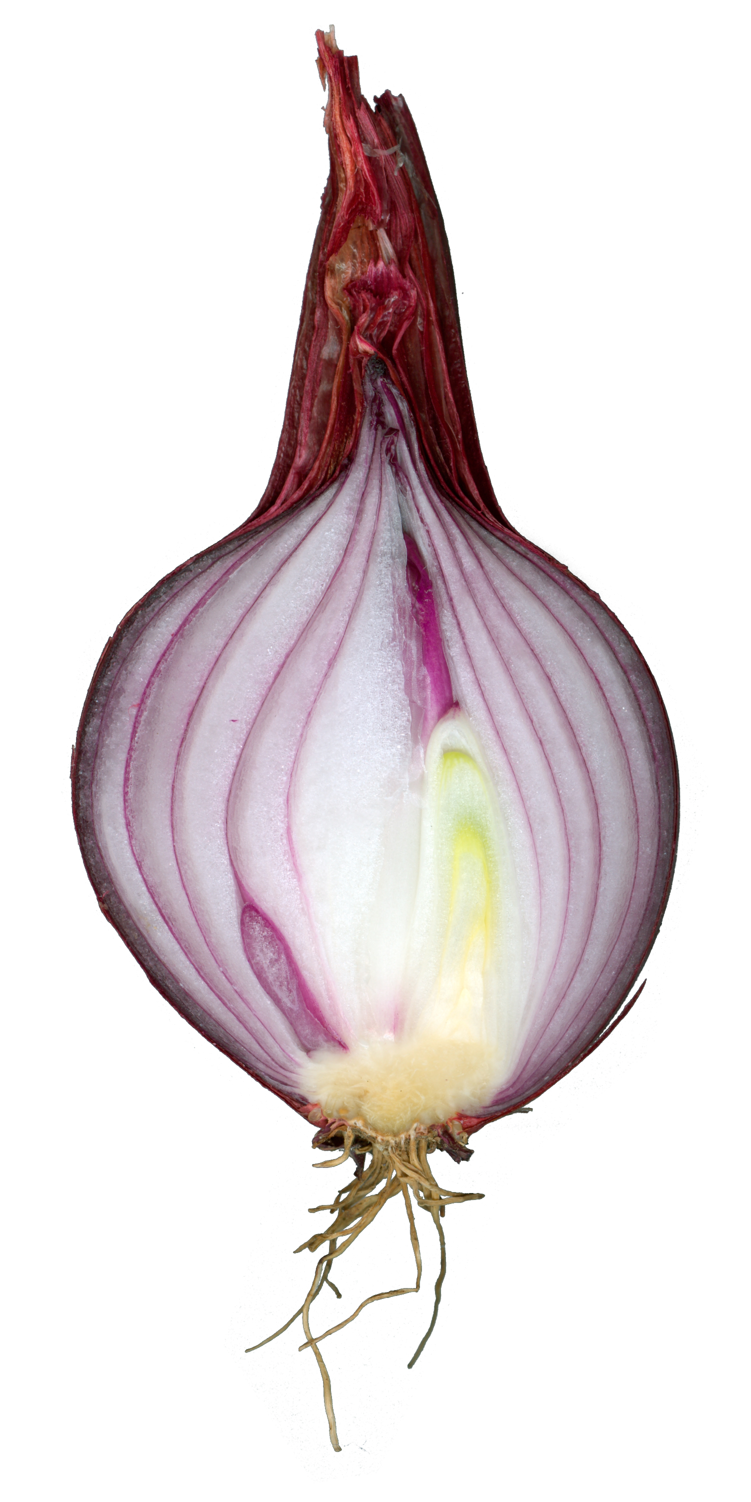 Cross section of an Onion